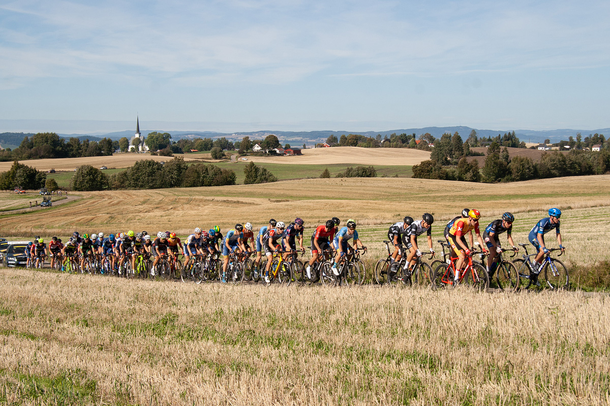 The main peloton of the 2018 Gylne Gutuer (UCI) at Hommerstadgutua on the second lap.